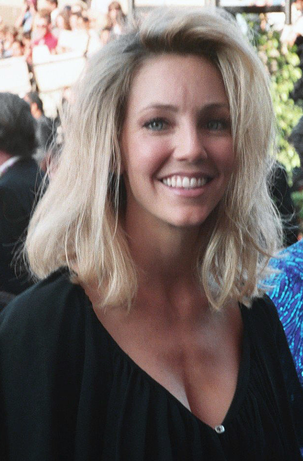 1993 Emmy Awards NOTE: Permission granted to copy, publish, broadcast or post any of my photos, but please credit "photo by Alan Light" if you can. Thanks. Scanned from the original 35MM film negative.